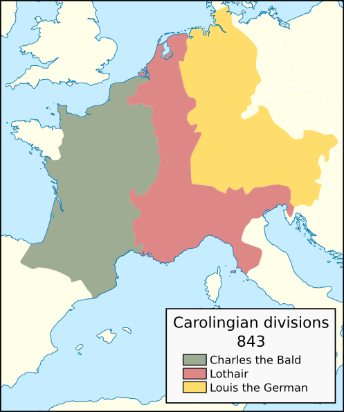 The territorial divisions of the Carolingian Empire in 843, following the partition of Verdun. I created this image using Inkscape. I based this map off the ones in: Costambeys, Marios; Innes, Matthew; MacLean, Simon. (2011) The Carolingian World. Cambridge University Press. ISBN 0521564948. pages 403-403.